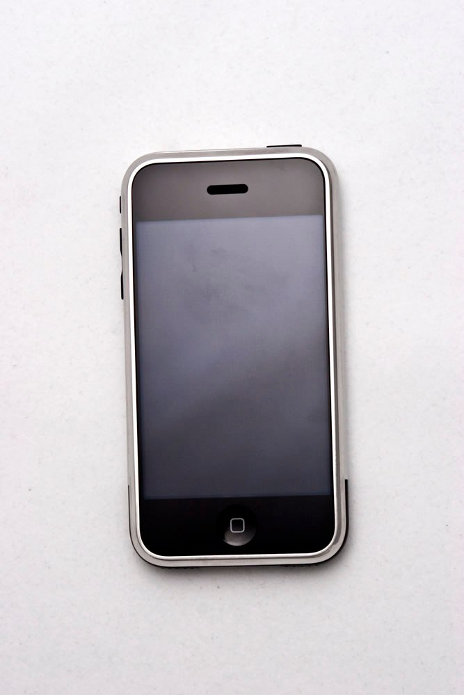 Apple portable media got a major upggrade with the introduction of the iPhone. Originally announced on January 9, 2007 Apple entered the market with its first Smart Phone market. With it signature touch screen and minimal interface that renders a virtual keyboard or custom interface options when necessary. The first generation iPhone has a 2.0 Megapixel camera, portable media functions, internet (including email, web browsing, and Wi-Fi connductivity) as well as text messaging and visual voicemail. First-generation phones were released with quad-band GSM EDGE.